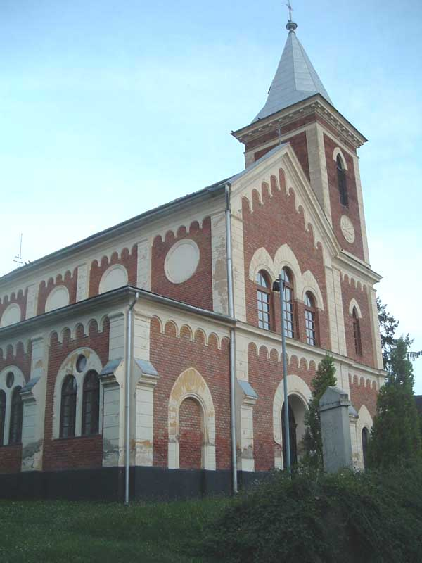 The roman catholic church in Nagykölked, Hungary. Urunk mennybemenetele római katolikus templom